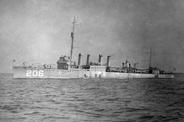 The U.S. Navy Clemson-class destroyer USS Chandler (DD-206) at anchor in November 1919.